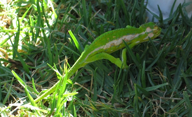 Cape Dwarf chameleon taken by self in my garden.